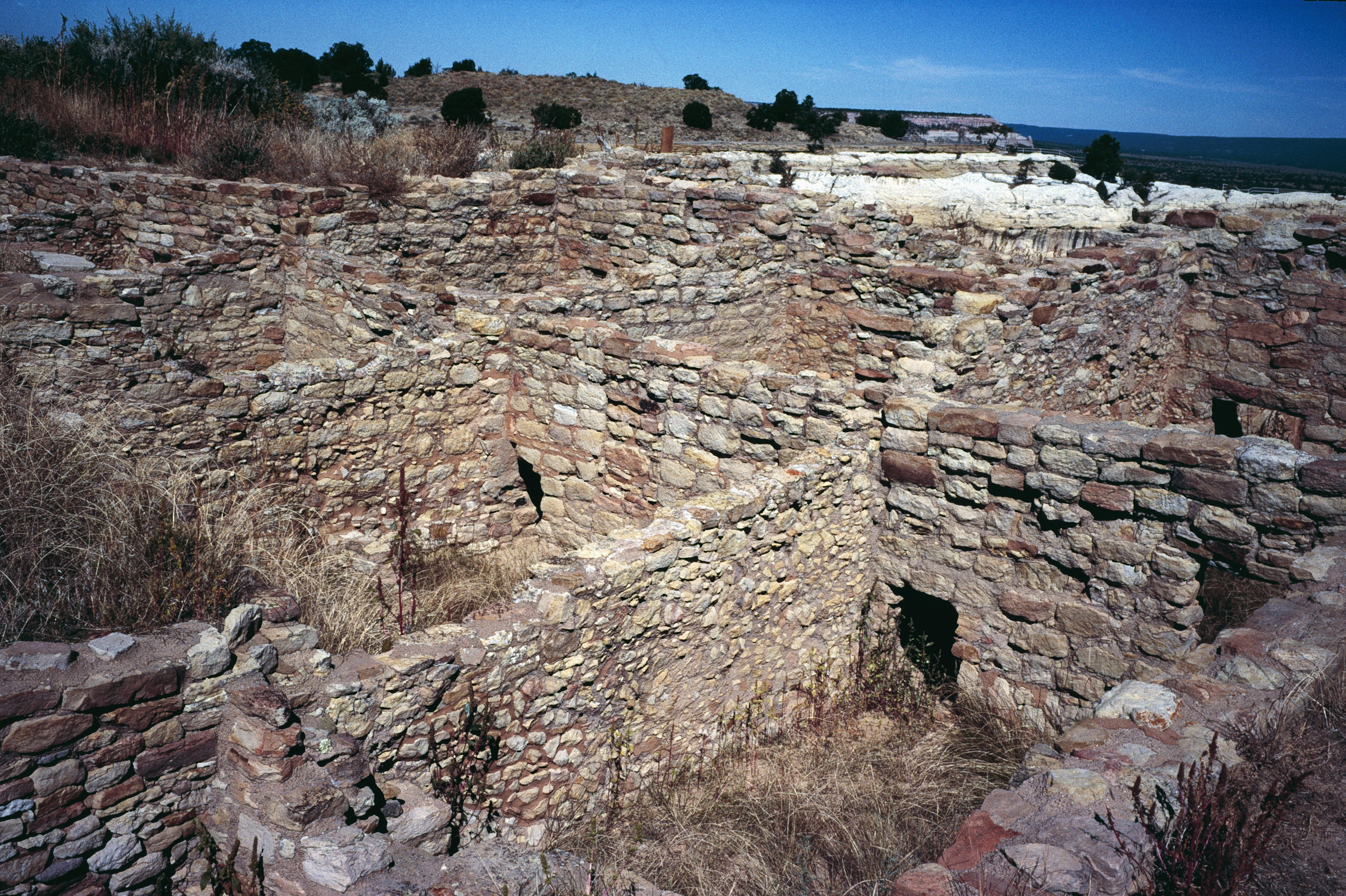 Atsinna Pueblo, El Morro Natl. Monmument, New Mexico: rooms